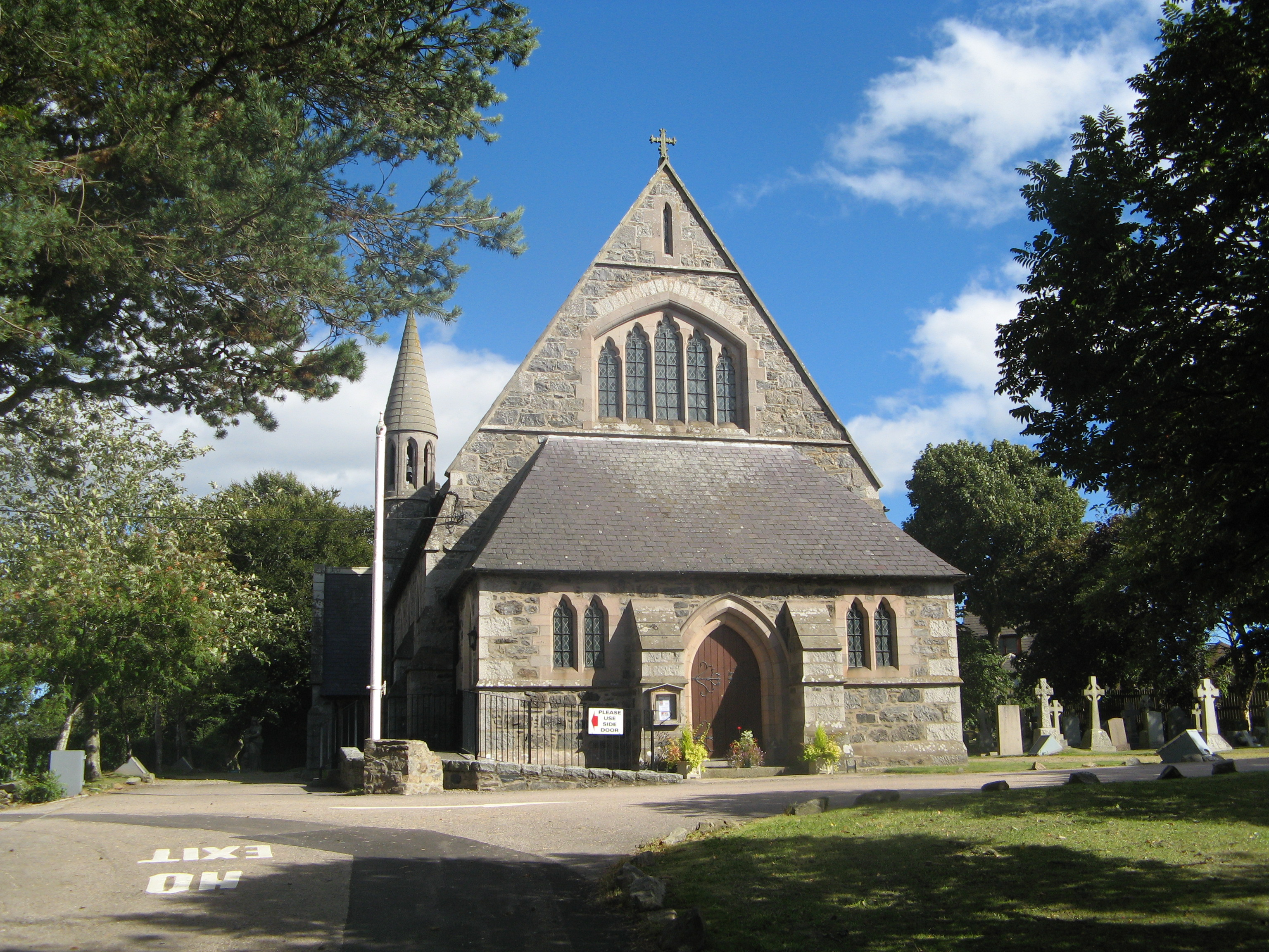 St. Mary on the Rock Episcopal Church, Ellon, category A listed building